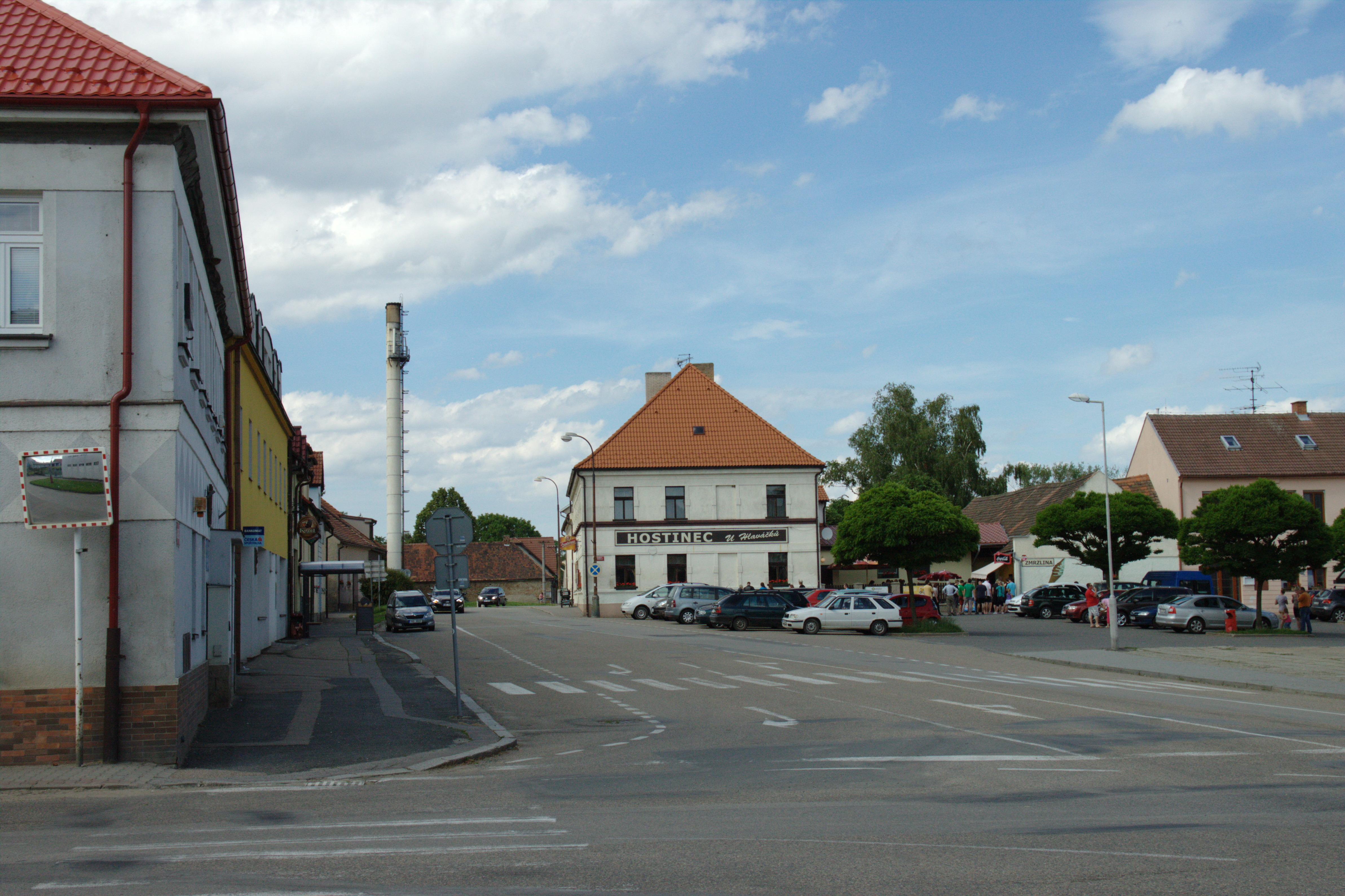 Main square in Bystřice, Central Bohemian Region, CZ